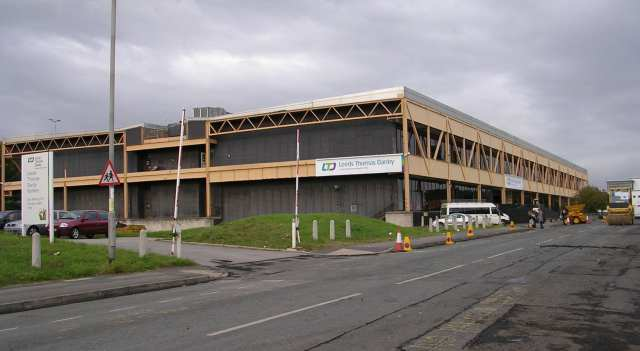 Leeds Thomas Danby College, now part of Leeds City College, Leeds, West Yorkshire, England - college of further education